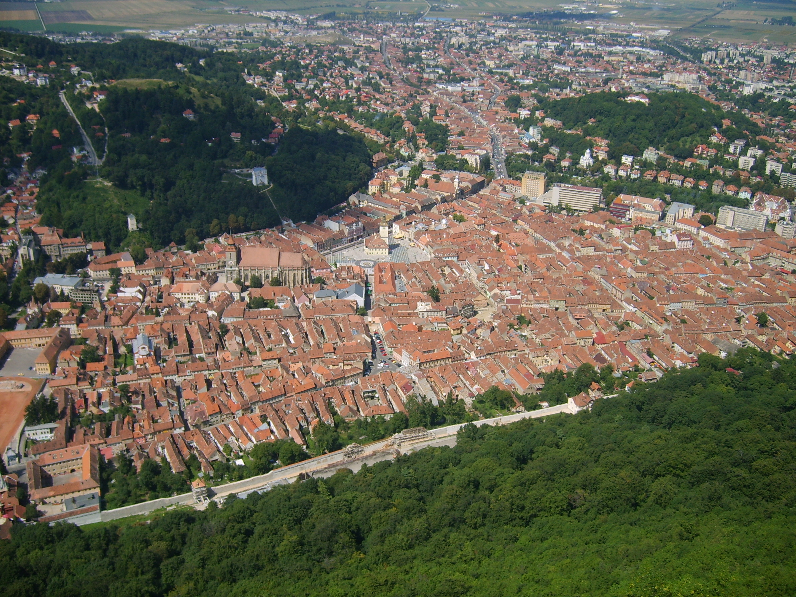 View of the center of Brasov from the top of the hill, where the huge text "Brasov" is.